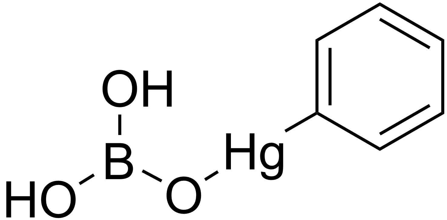 chemical structure of phenylmercuric borate